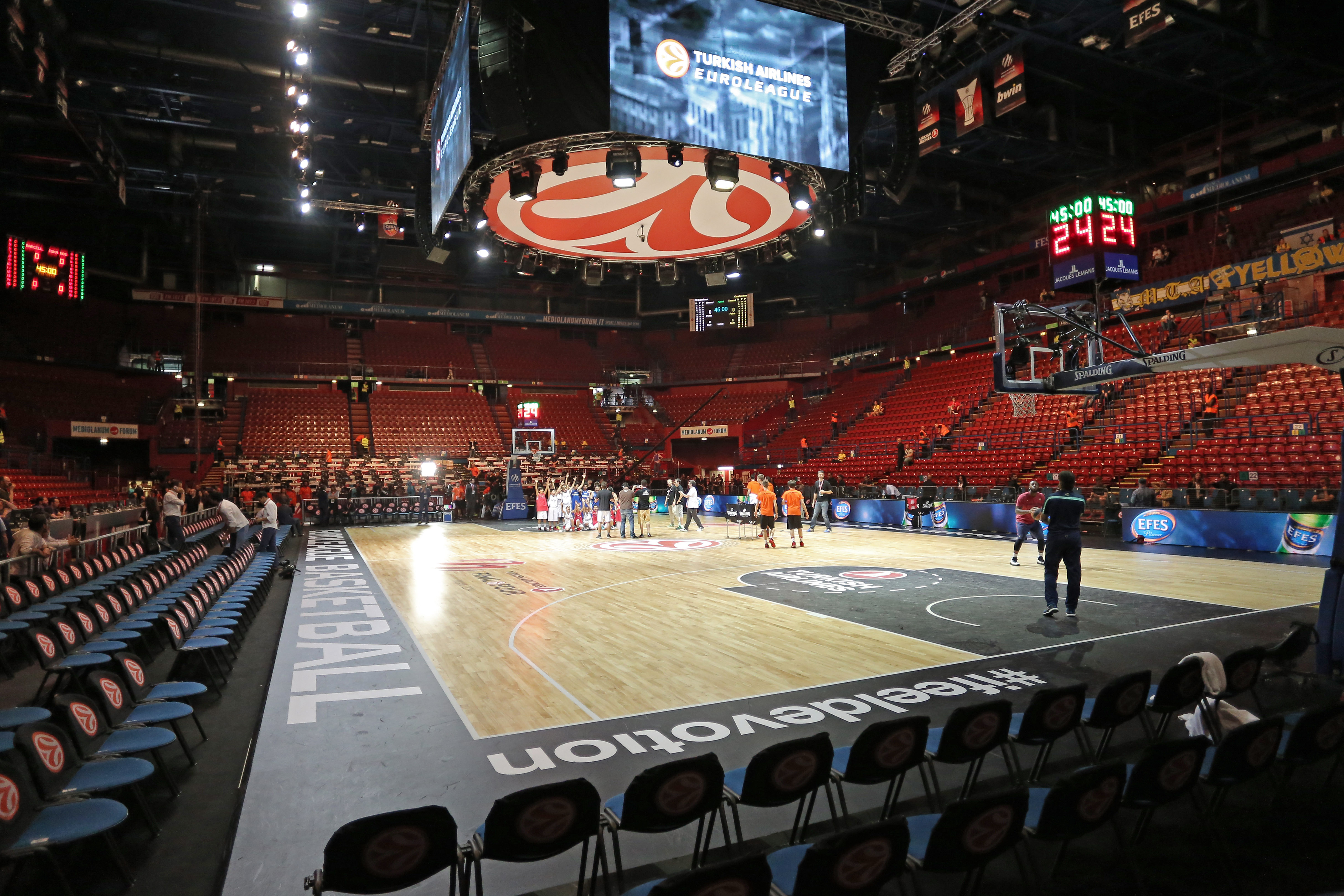 Forum di Assago during staging for the Euroleague Final Four 2014.